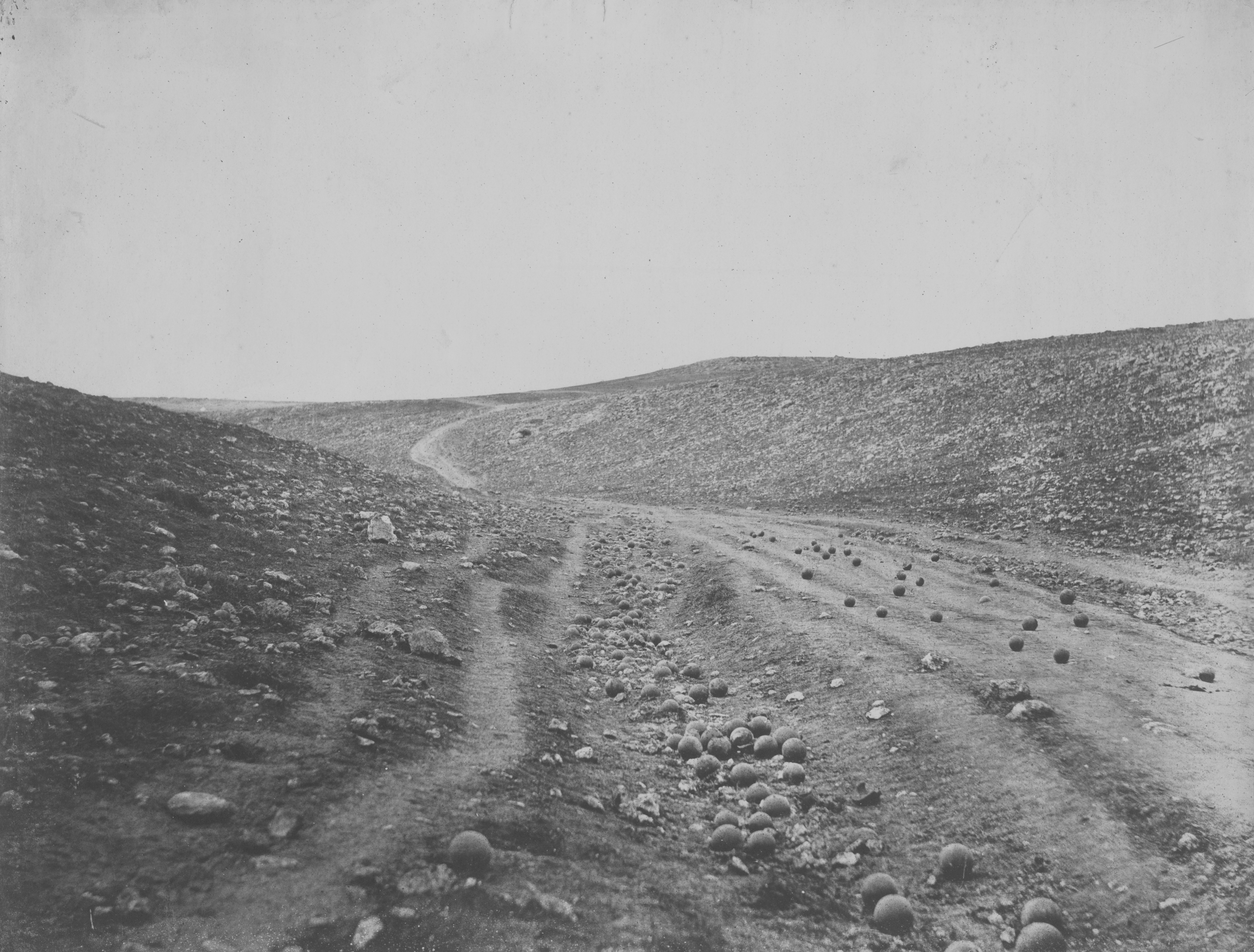 "Shadow of the Valley of Death" Dirt road in ravine scattered with cannonballs, Crimea. Cannon shot falling short of their target during the Siege of Sevastopol. No color correction for this historic image.